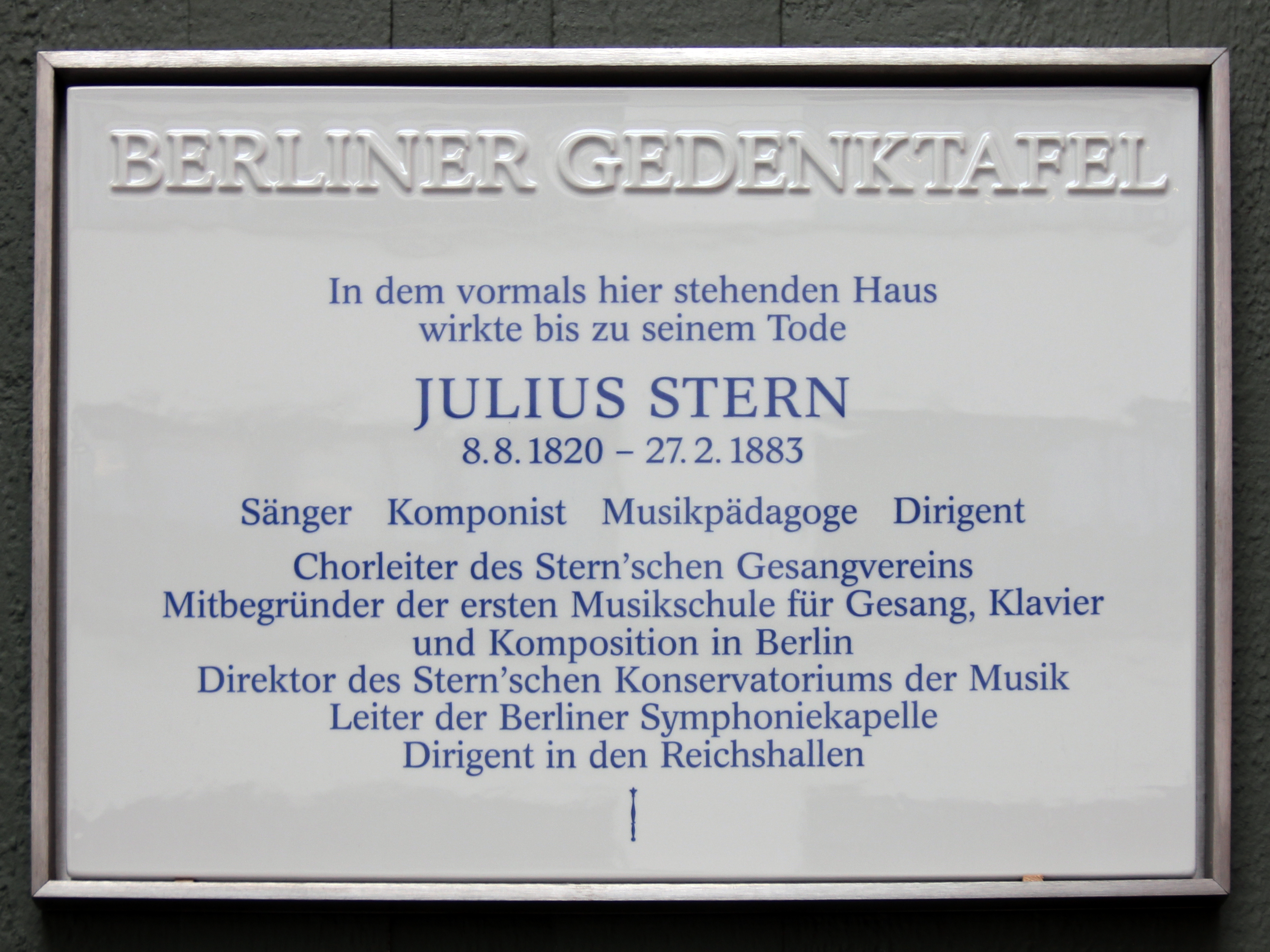 Berlin memorial plaque, Julius Stern, Friedrichstraße 214, Berlin-Kreuzberg, Germany